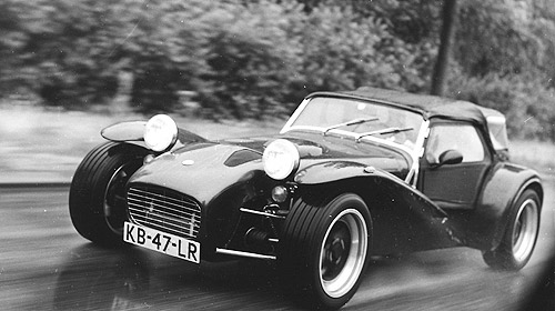 The first Donkervoort model, built from 1978 to 1984.